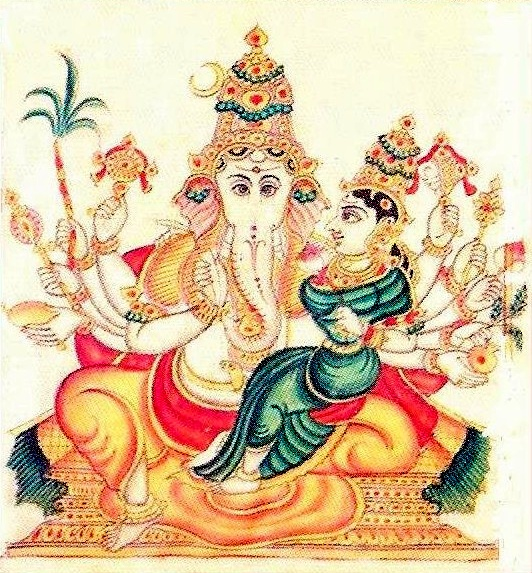 Depiction of the Mahāganapati form of Ganesha, with a shakti. Upper area shows a description of the form as a meditation verse written in Kannada script. Reproduction from the Sritattvanidhi ("The Illustrious Treasure of Realities"), an iconographic treatise compiled in the 19th century in Karnataka, India, by order of the then Maharaja of Mysore, Krishnaraja Wodeyar III (b. 1794 - d. 1868).